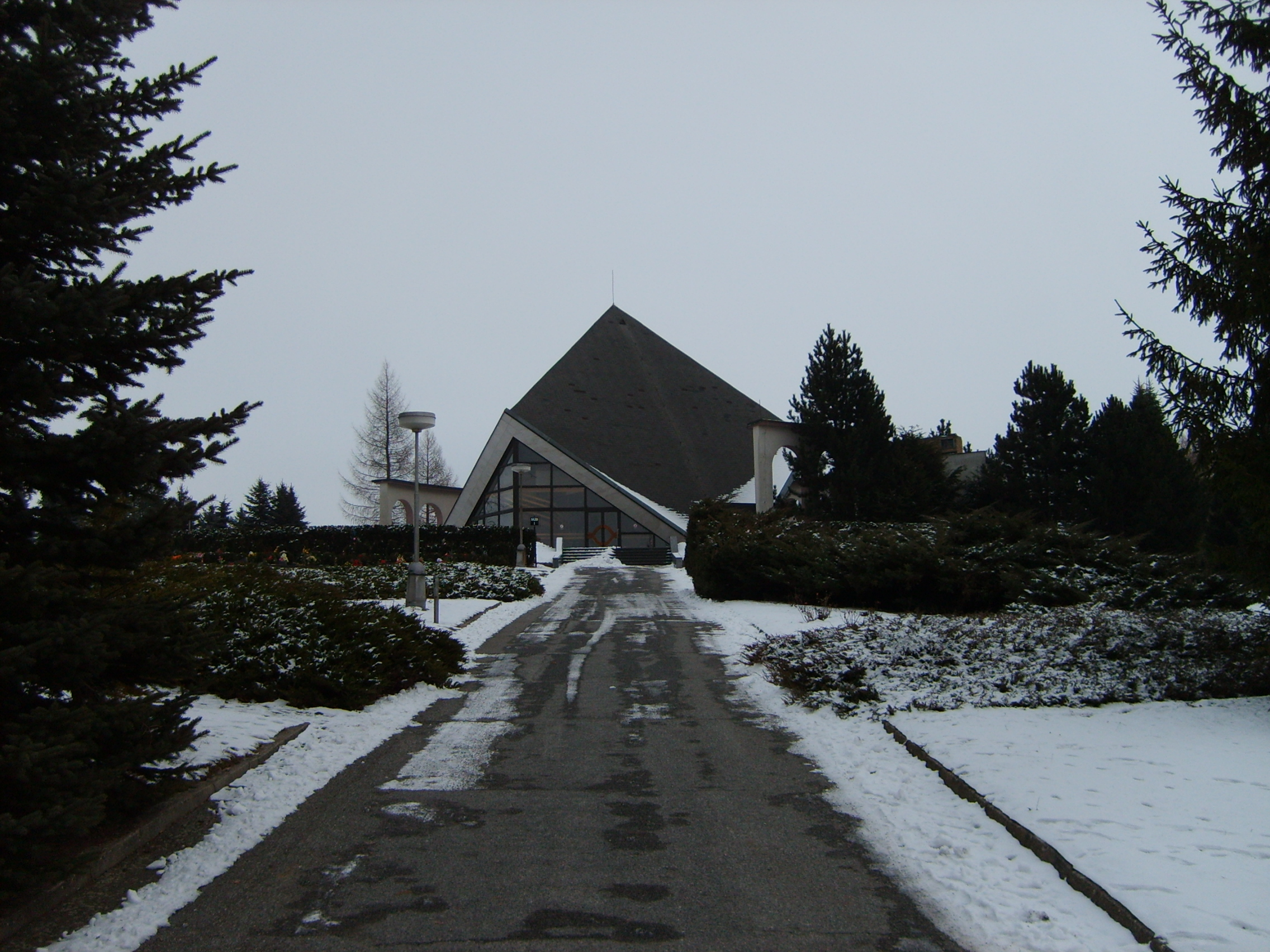 Funeral Hall in Pelhřimov.